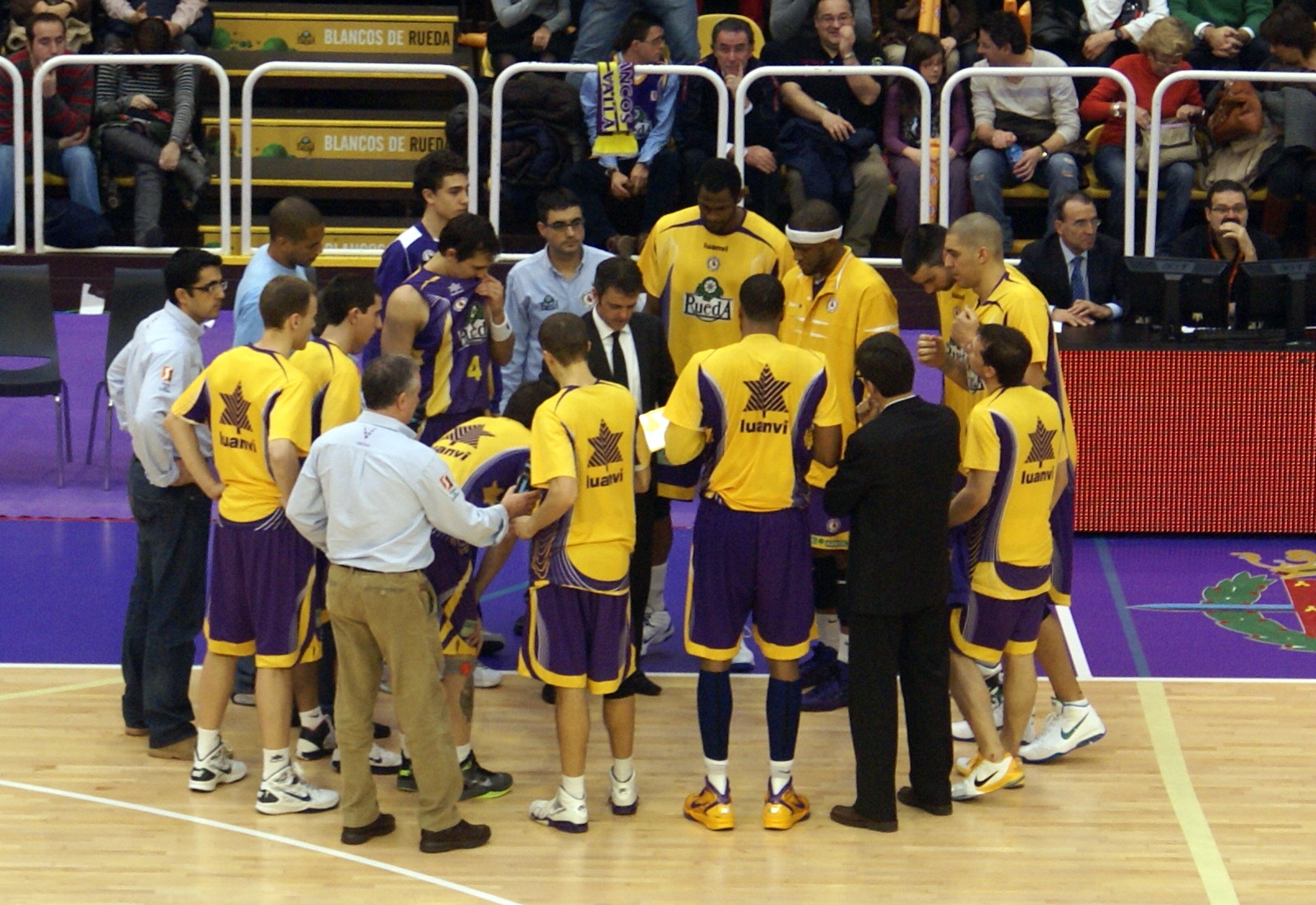 The Club Baloncesto Valladolid during time-out